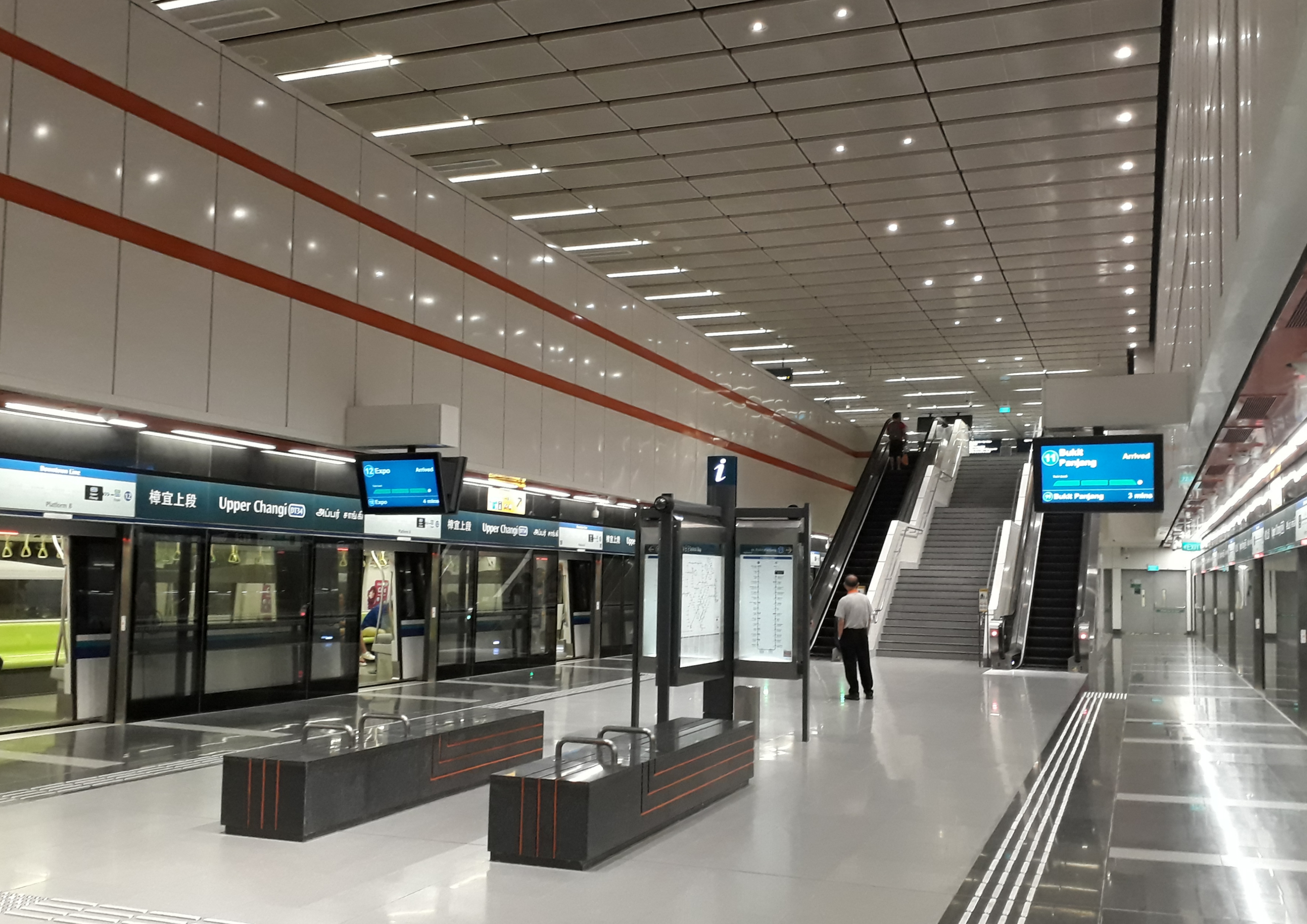 Upper Changi MRT Station